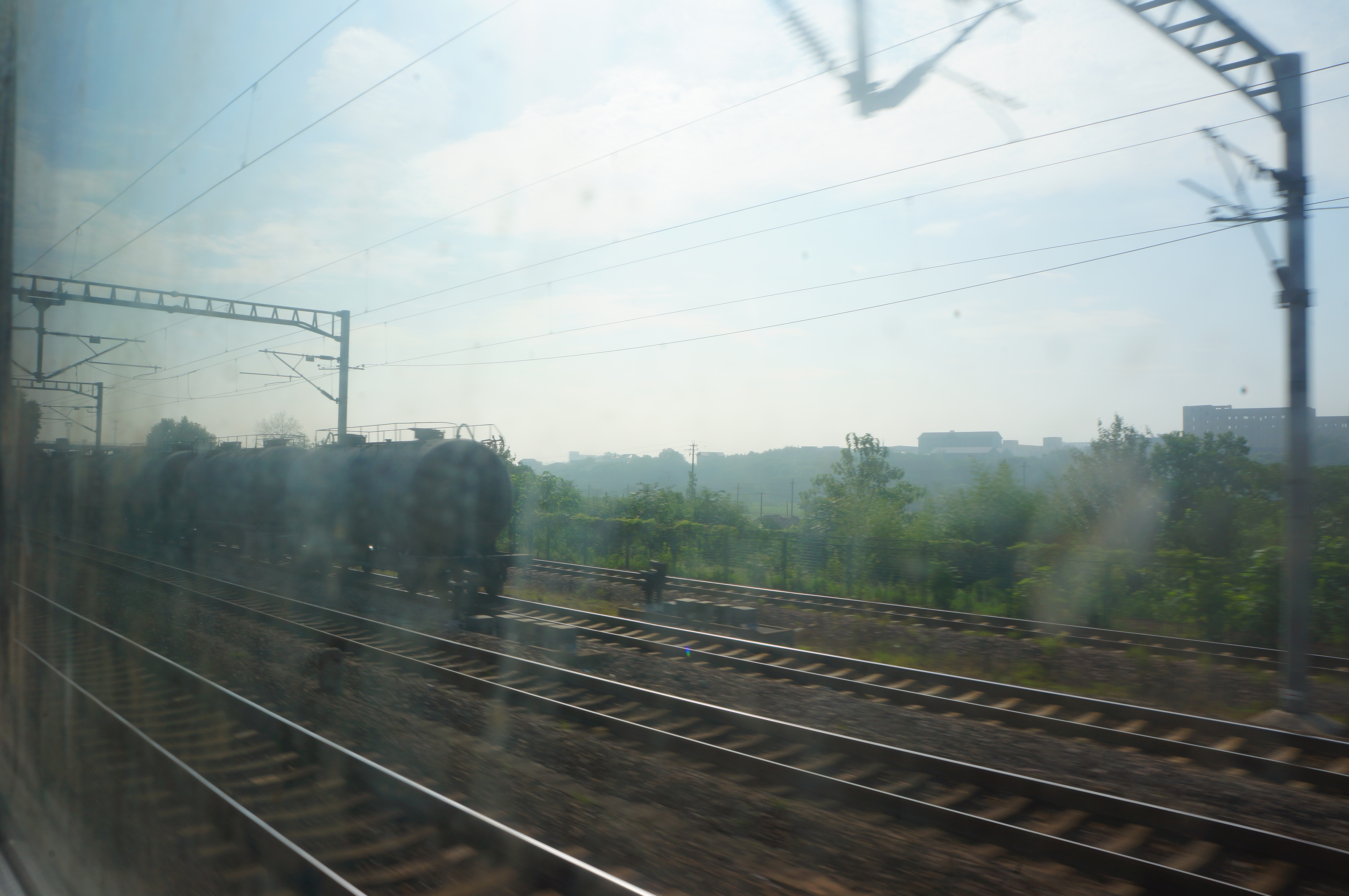 201708 Shangpu Station. The station building was hidden behind a freight train